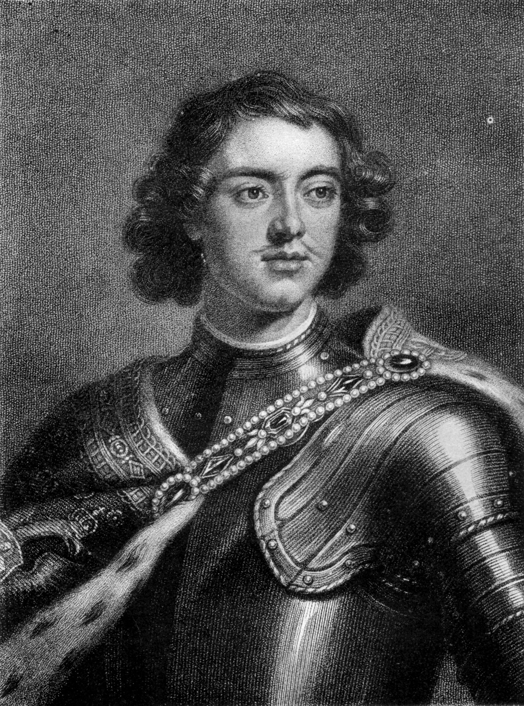 PETER THE GREAT.